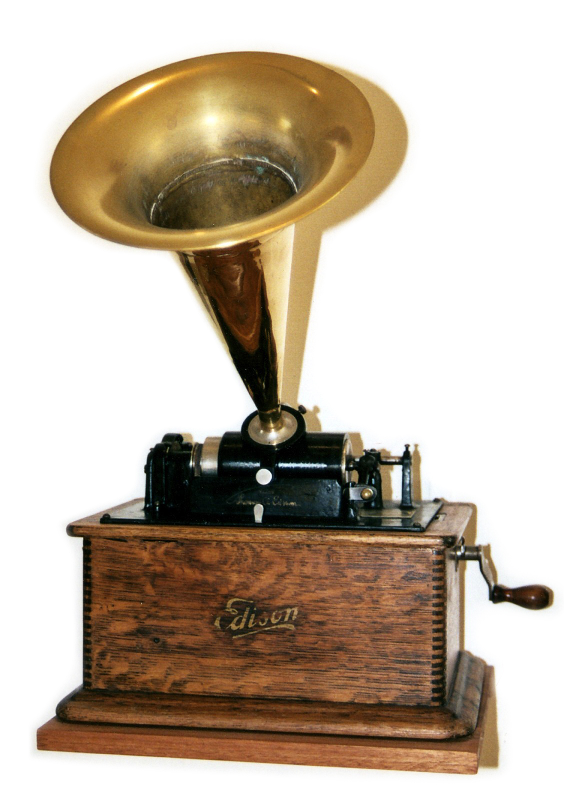 Edison Phonograph